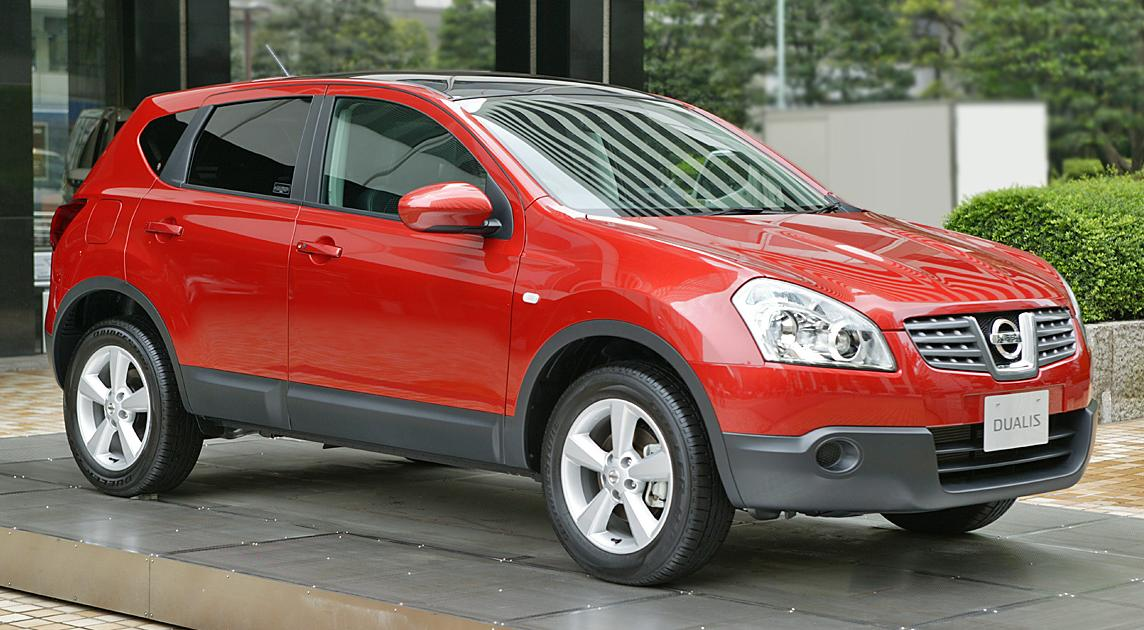 Nissan Dualis 20G Four ( KNJ10 )